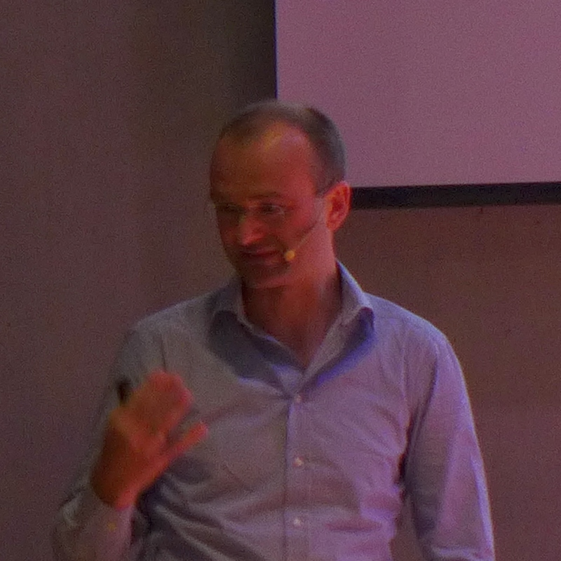 2018: Tobias Moser (Institute for Auditory Neuroscience) giving a public lecture in the PS Speicher in Einbeck